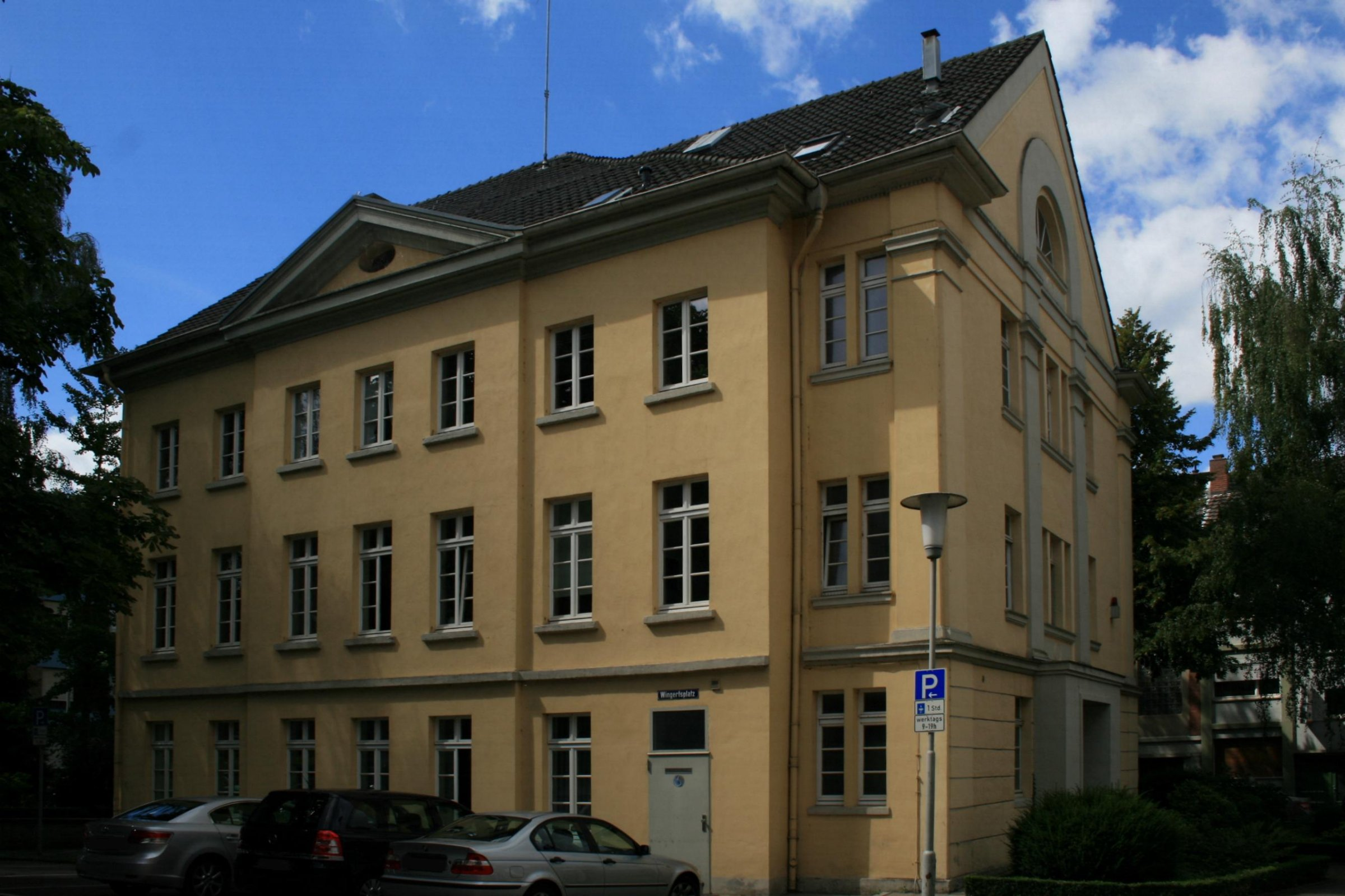 Cultural heritage monument No. W 039 in Mönchengladbach